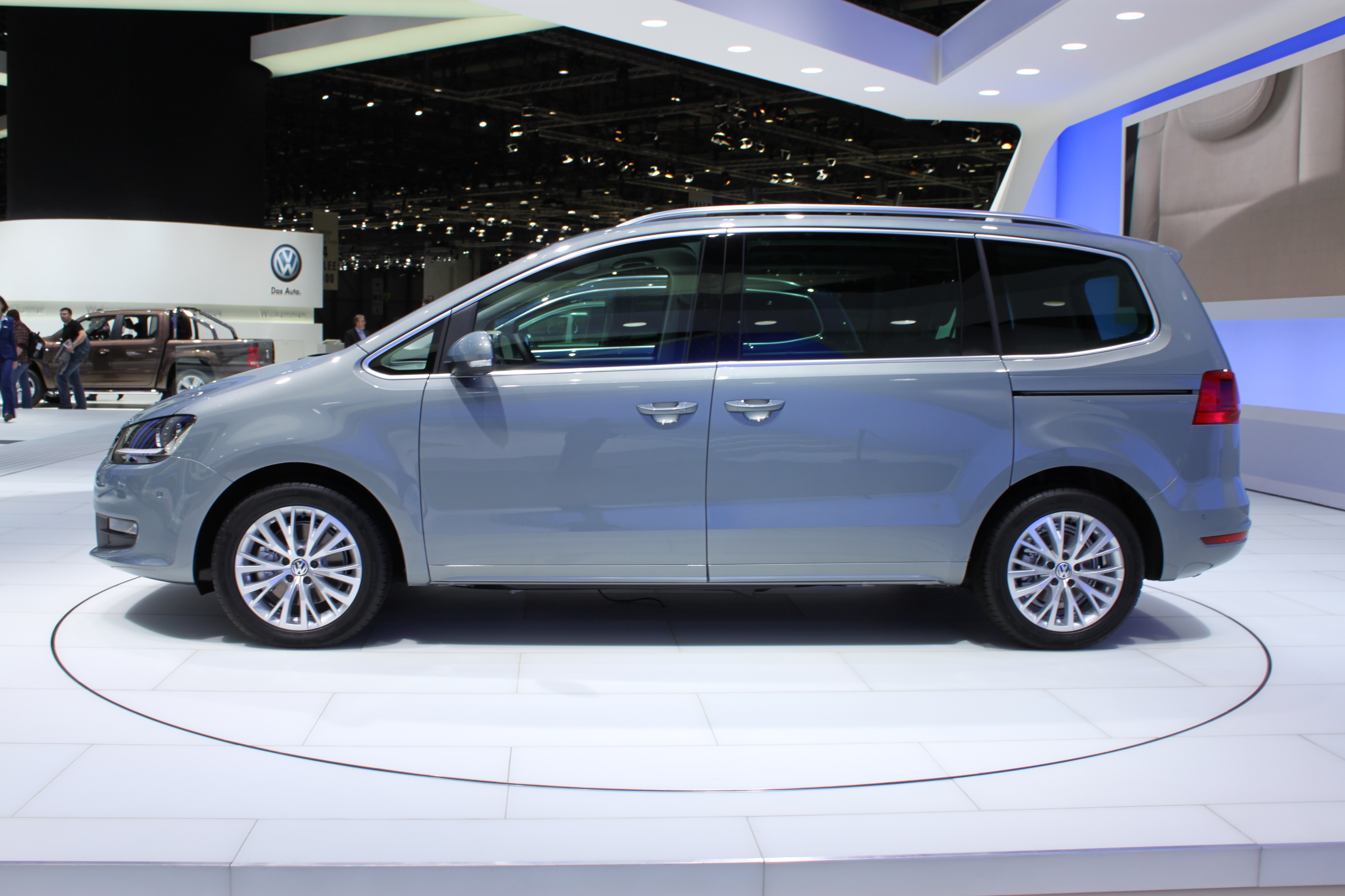 VW Sharan MkII at the 2010 Geneva Motor Show